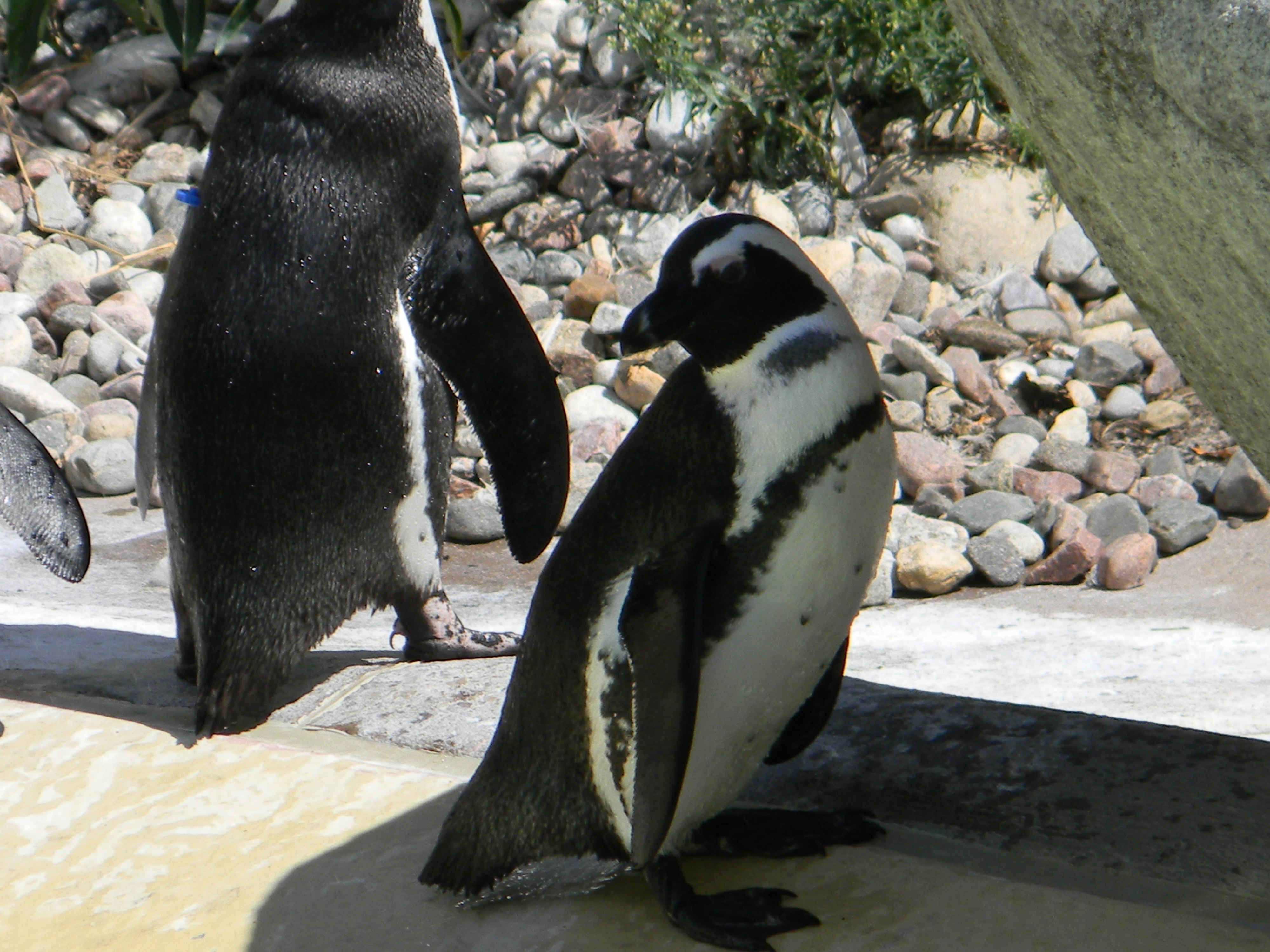 African Penguin